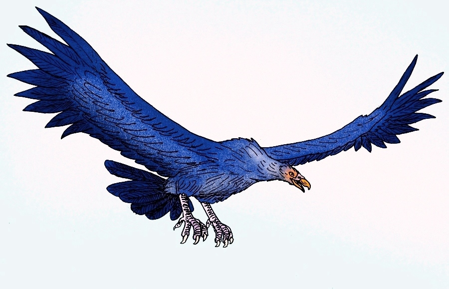 Argentavis magnificens Author: Stanton F. Fink Orginal picture: Image:Argentavis magnificens.JPG